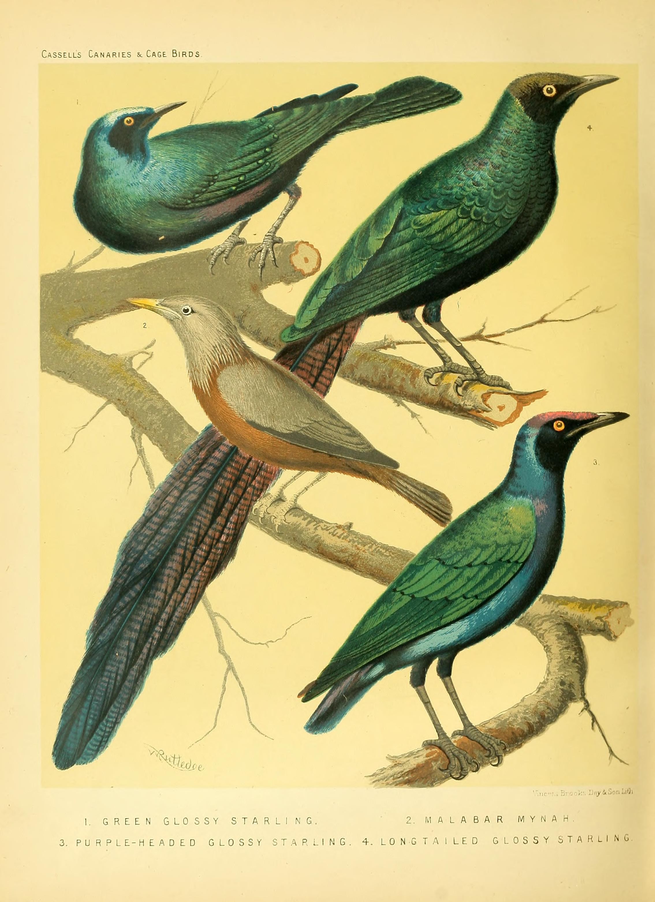 Chromolithograph from W. Blakston, W. Swayzland, A. Wiener: Canaries and Cage Birds. Cassell, London 1878. Greater Blue-eared Glossy-starling (Lamprotornis chalybaeus) White-cheeked Starling (Sturnus cineraceus) Purple-headed Glossy-starling (Lamprotornis purpureiceps) Long-tailed Glossy-starling (Lamprotornis caudatus)